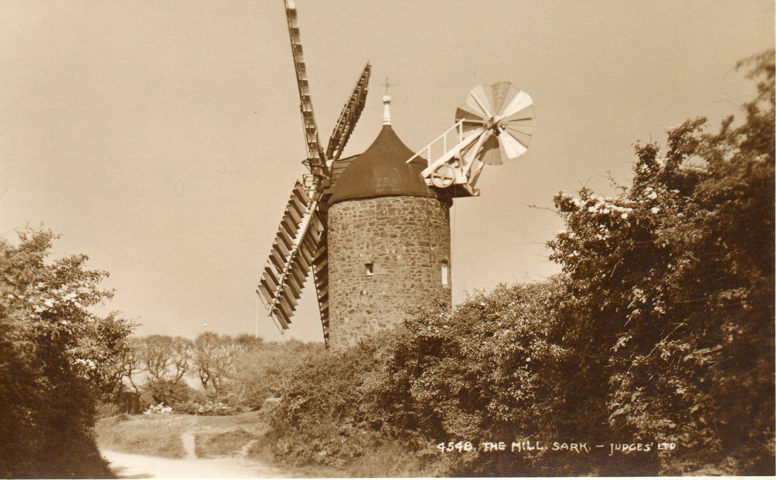 Sark windmill from an old postcard. Date c1905 as card is an undivided back card.This card has a divided back and was published c1914